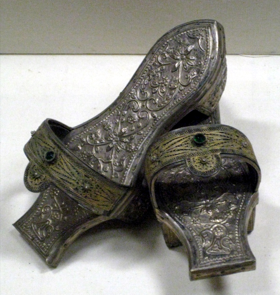 Ancient turkish shoes for bathes.